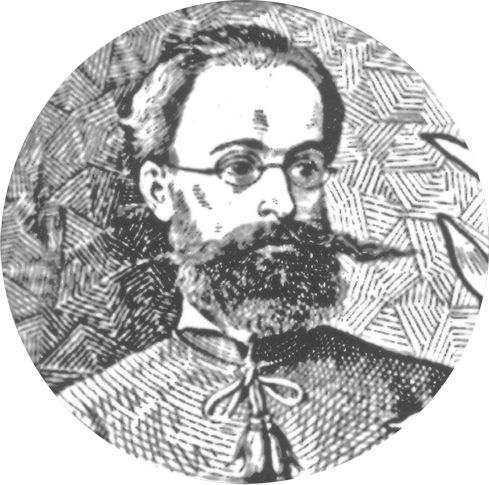 Portrait Hugo Gerard Ströhl (1851–1919)